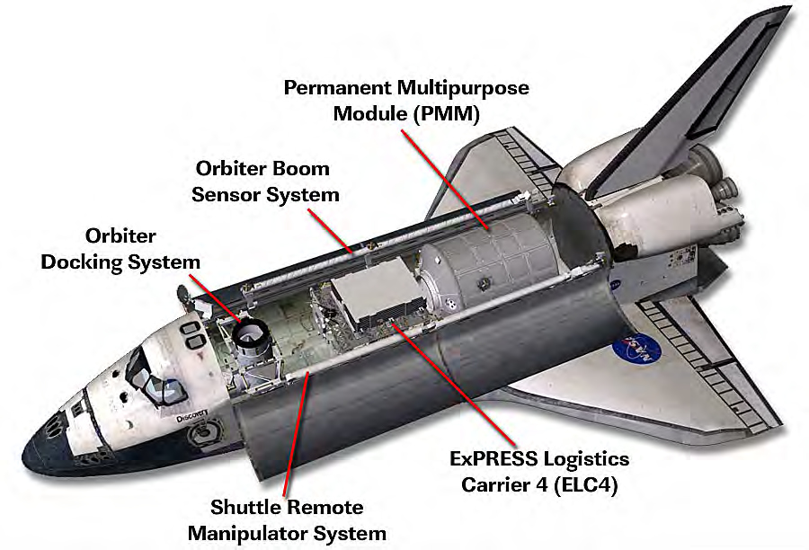 This graphic depicts the space shuttle Discovery’s payload bay for STS-133, which includes the Permanent Multipurpose Module and the Express Logistics Carrier 4. The total payload weight, not counting the middeck, is 22,160 pounds.